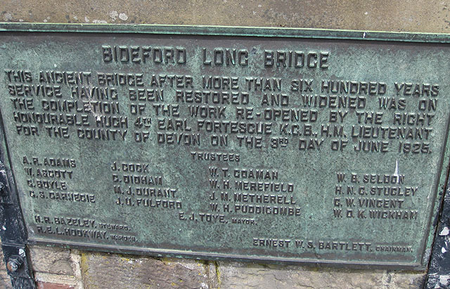 Information plaque, Bideford Long Bridge. For a wide view of the bridge see 18231